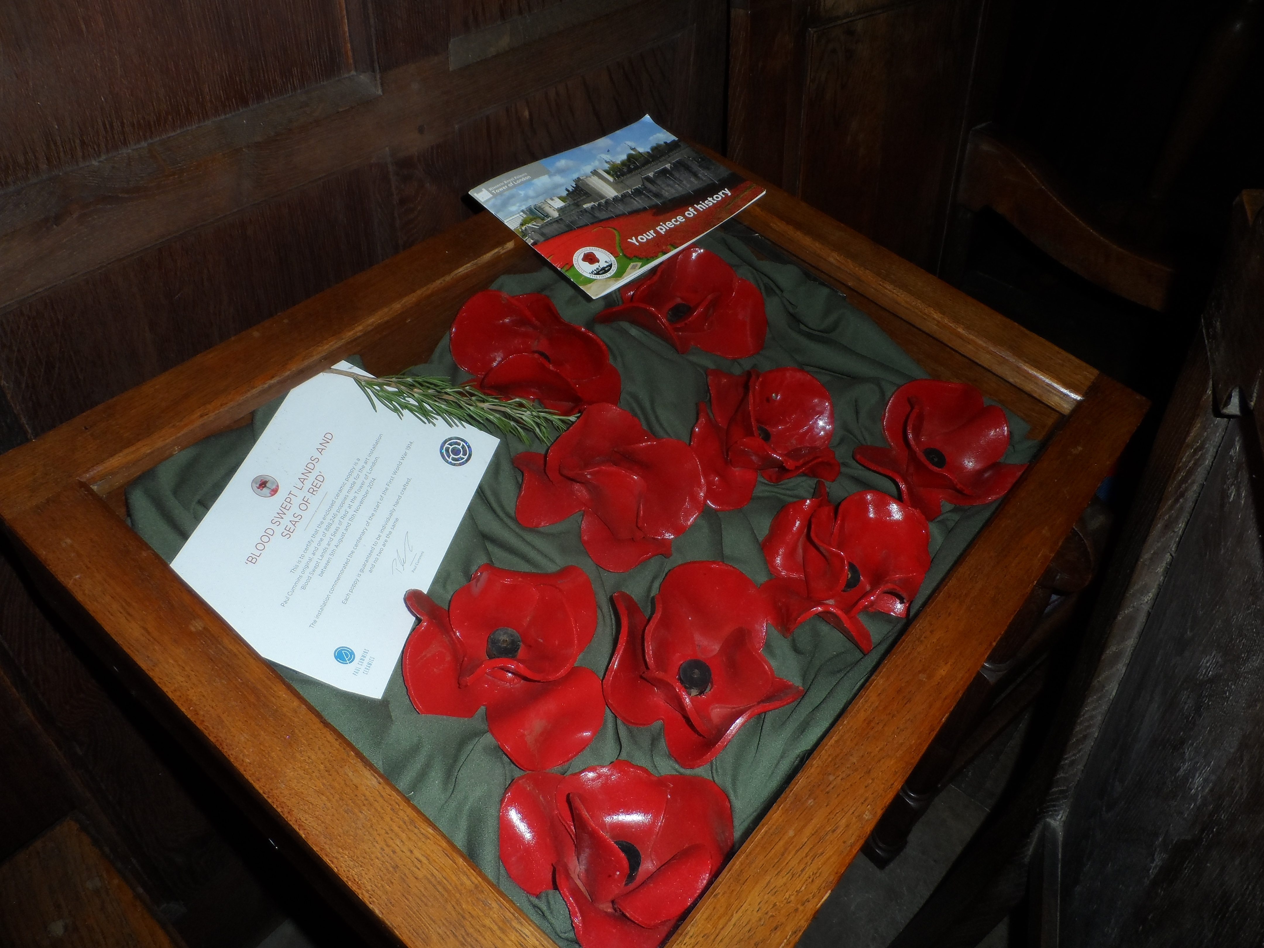 Display cabinet for commemorative poppies from the 'Bloodswept Lands and Seas of Red' art installation (originally located on Tower Hill), with this cabinet located in St John the Baptist's Church, Hillingdon.